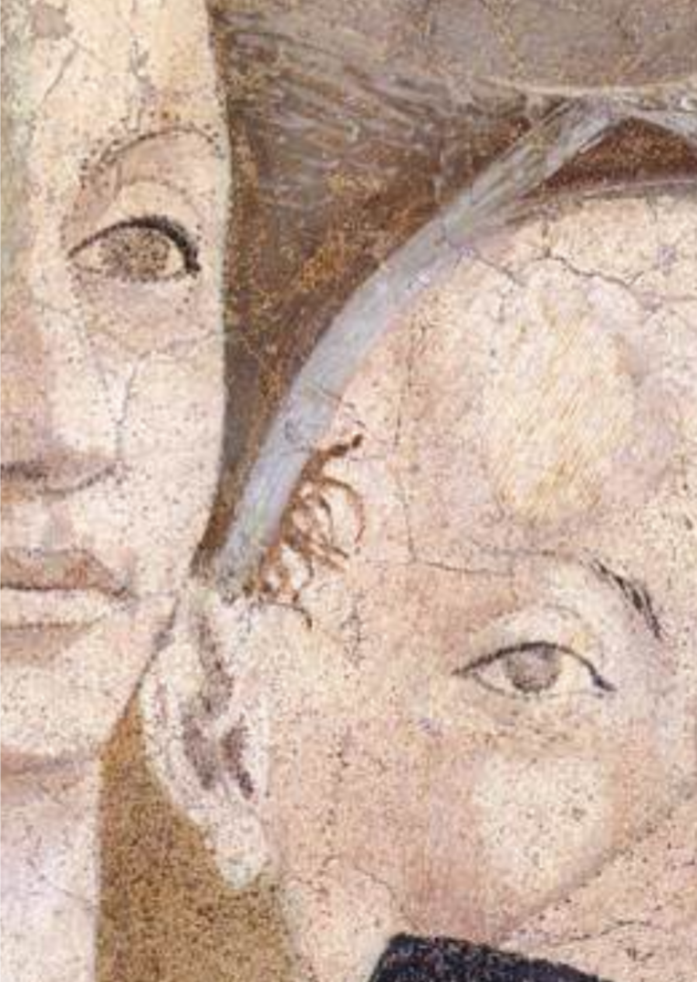 pricked marks of pouncing in a fresco by Piero della Francesca Finding of the True Cross (detail)